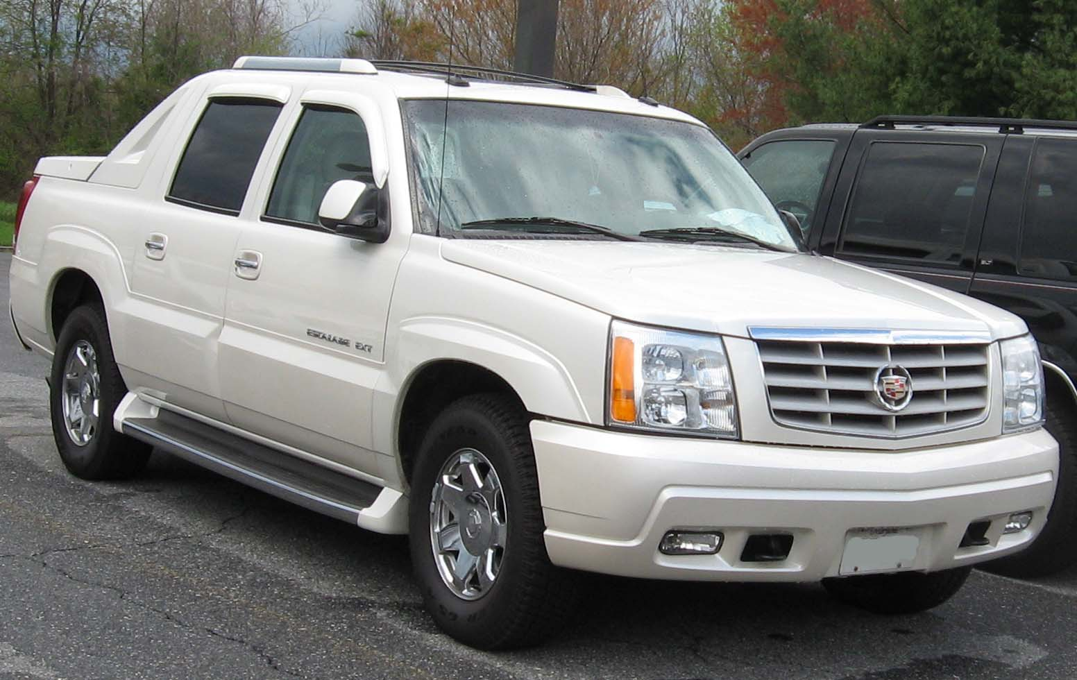 2003-2006 Cadillac Escalade EXT photographed in USA.